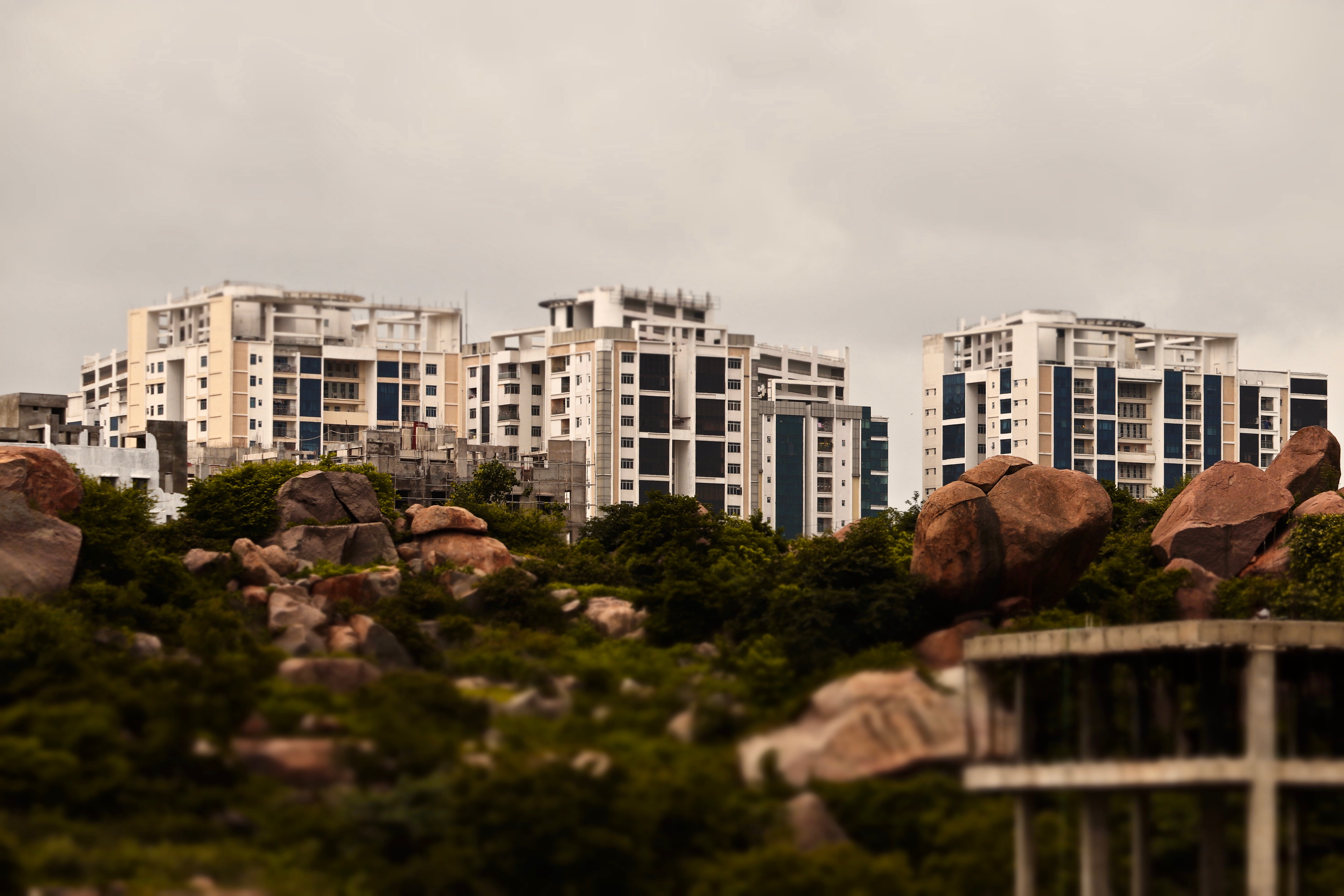 Accenture office building in Gachibowli seen across from Prasanth Hills